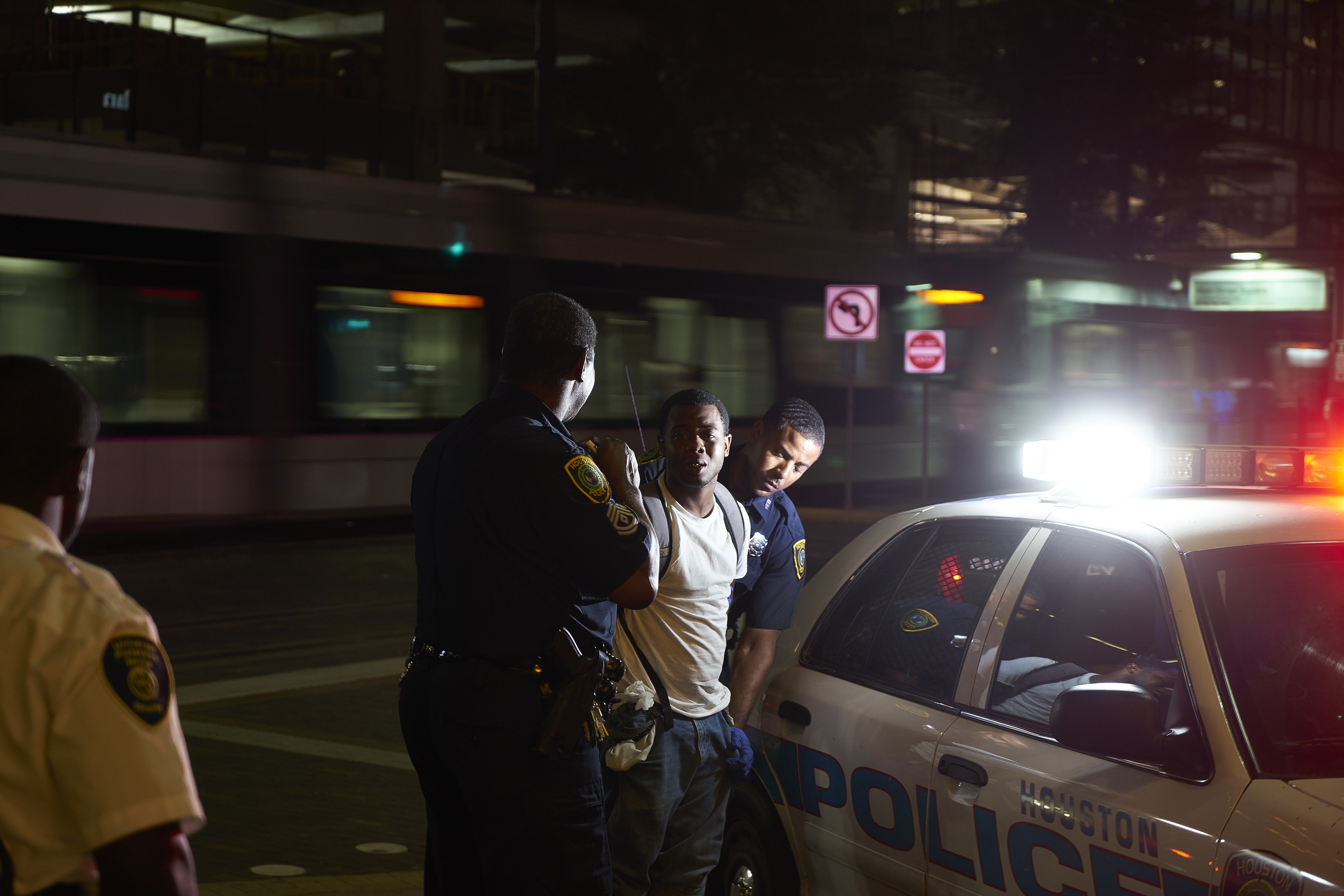 Houston Police arrests a young male on 1200 Main Street in downtown Houston The making of this document was supported by the Community-Budget of Wikimedia Germany.